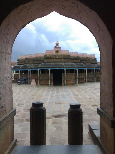 Kundgol Shambhulinga_temple 15 km from Hubli Author and Source : Manjunath Doddamani, Gajendragad, Karnataka (North), India